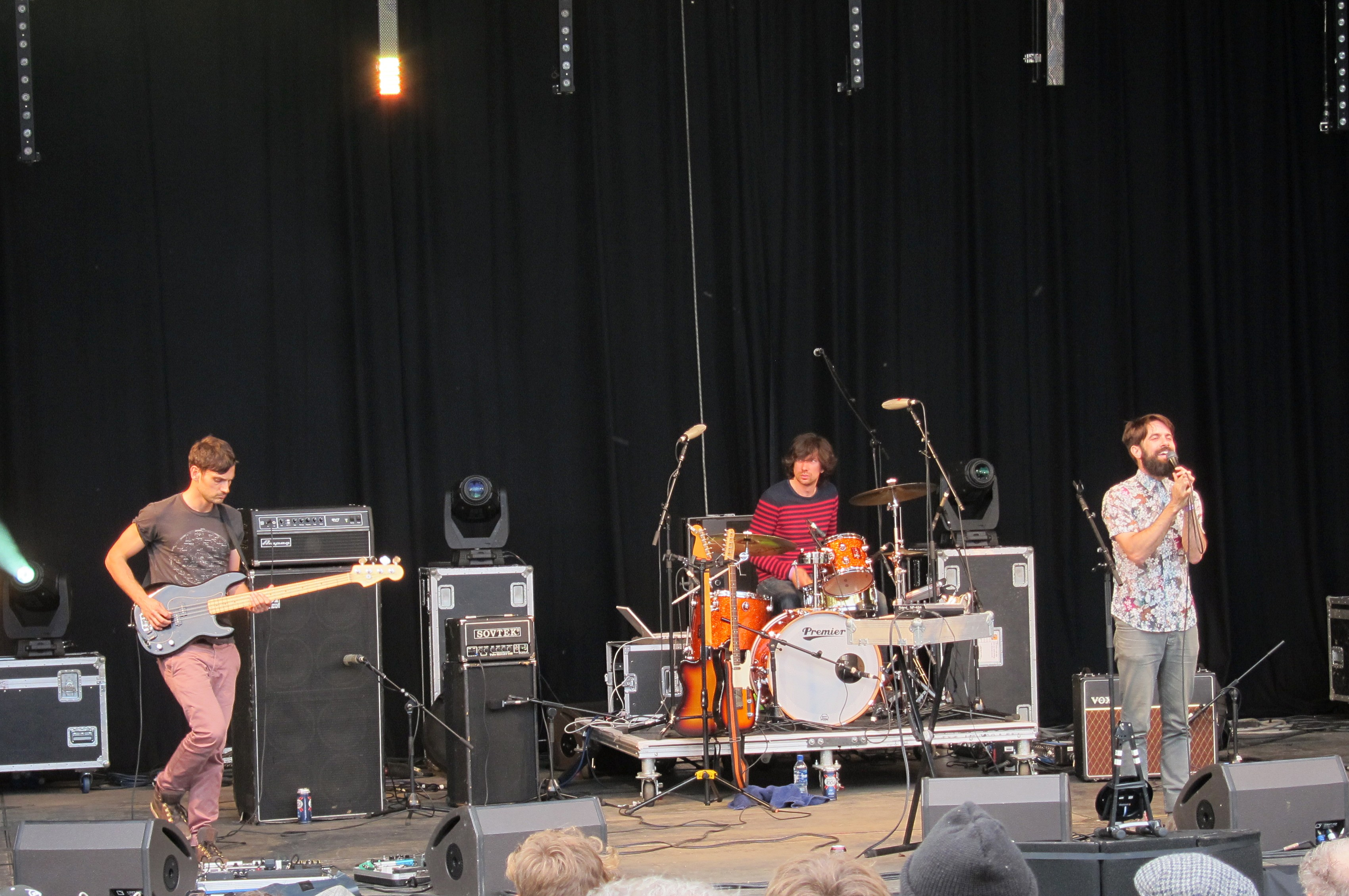 Clock Opera, Main Stage, Summer Sundae festival, Leicester, 17 August 2012